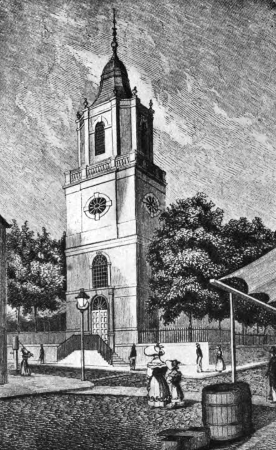 An image of Old Saint Peter's Church taken from a 1914 publication entitled "The Catholic Church in the United States of America: Undertaken to Celebrate the Golden Jubilee of His Holiness, Pope Pius X, Volume 3." The image can be found on page 360.